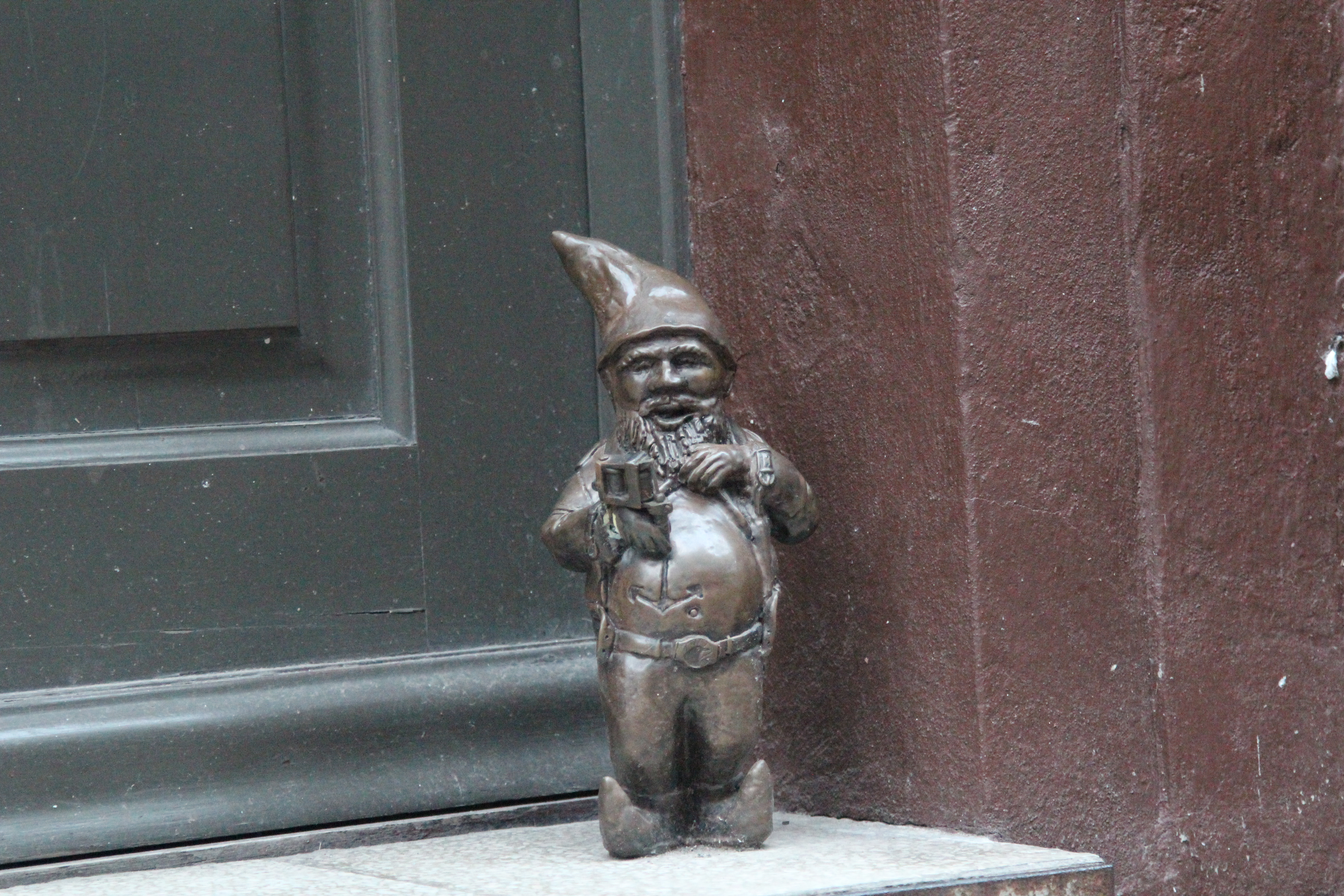 Tattooer (Tatuator) dwarf from Kos Tattoo on Kiełbaśnicza 7